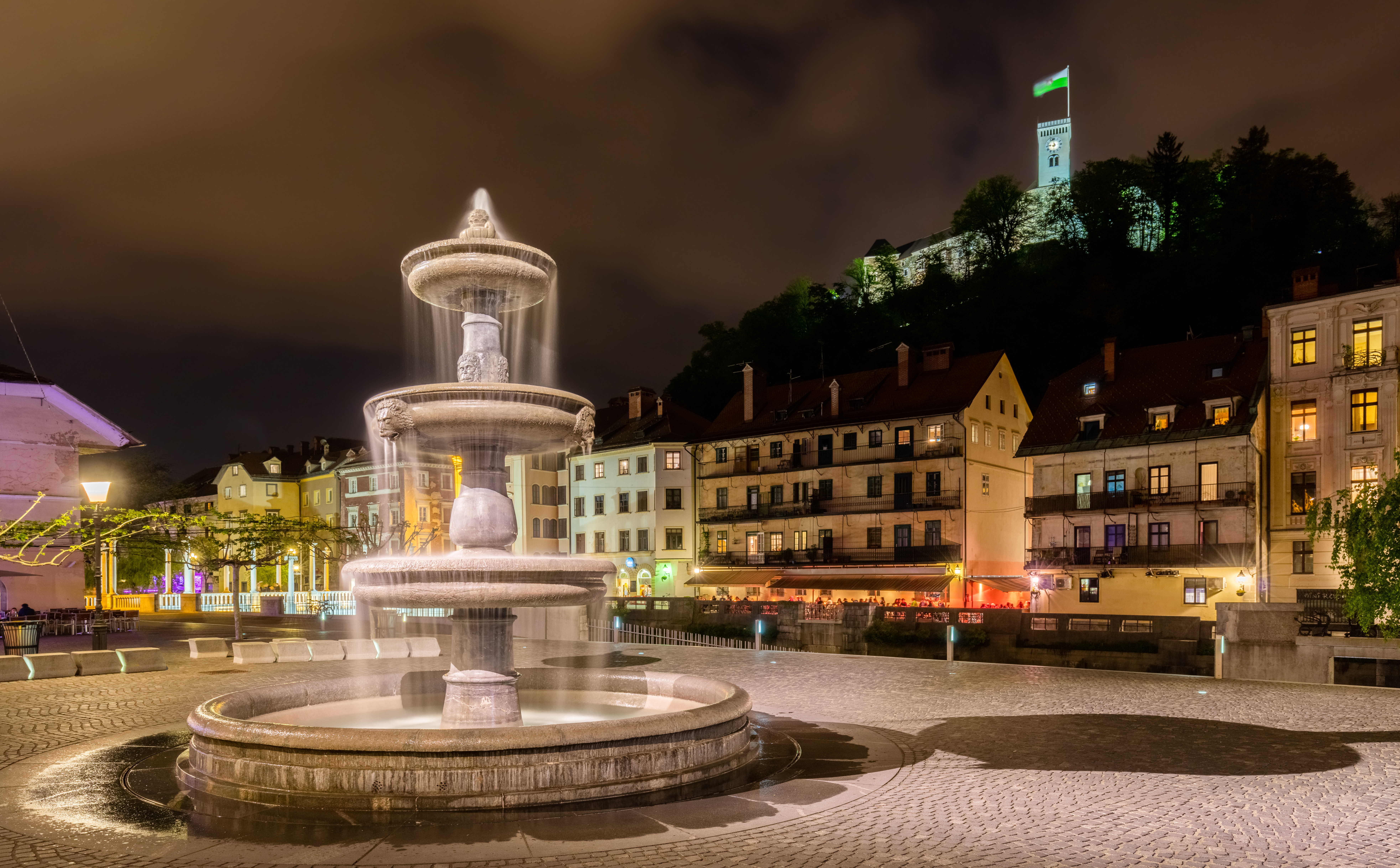 Fountain at New Square, Ljubljana, Slovenia